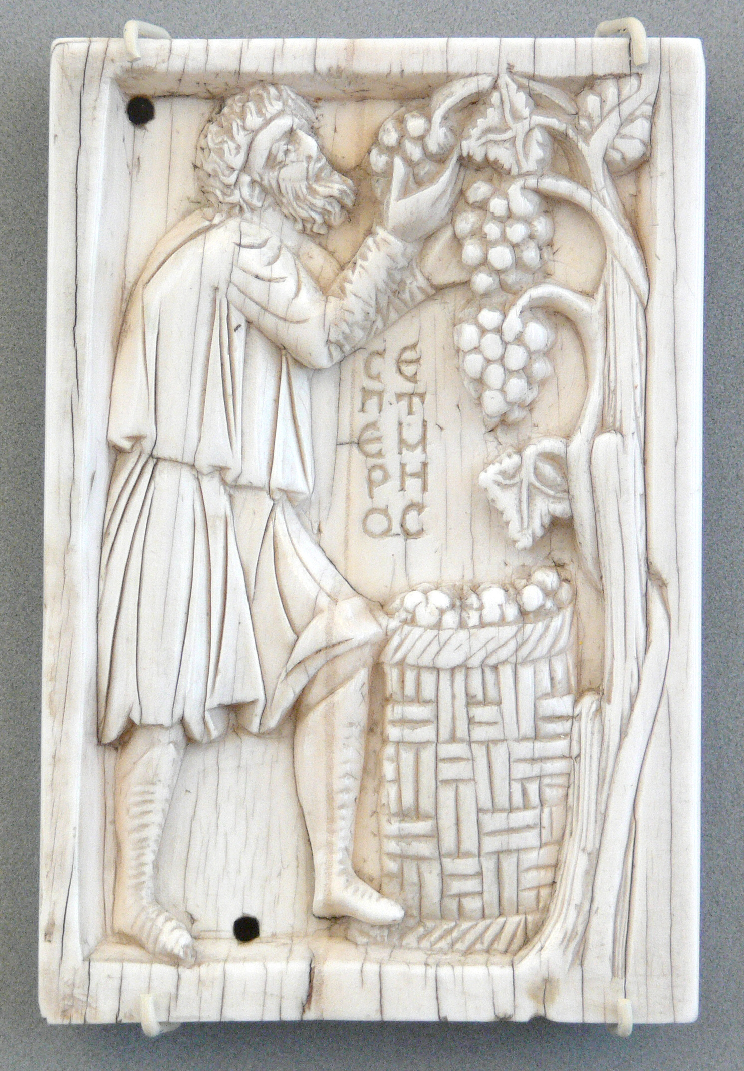 Tables from a box with Month of Septemberh, Byzantine Empire, 10th/11th century; ivory. Museum für Byzantinische Kunst (inv. no. 573; from the Radowitz collection), Bode-Museum, Berlin.